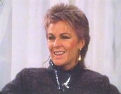 A screenshot of Anni-Frid Lyngstad (Frida) from The Story of ABBA, interview recorded on October 1982, first published on December 1982.